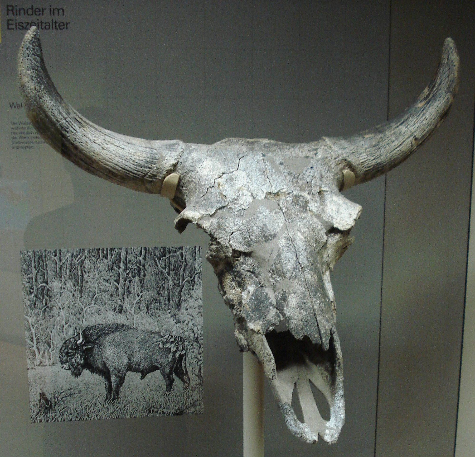 fossil of bison schoetensacki